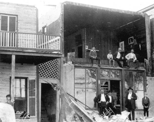 Local call number: RC03828 Title: [Victims gathered around building devastated by hurricane: Cedar Key, Florida] Date: Photographed in 1896 Physical descrip: 1 photoprint: b&w; 8 x 10 in. Series Title: (Reference Collection) Repository: 500 S. Bronough St., Tallahassee, FL 32399-0250 USA. Contact: 850.245.6700. Persistent URL